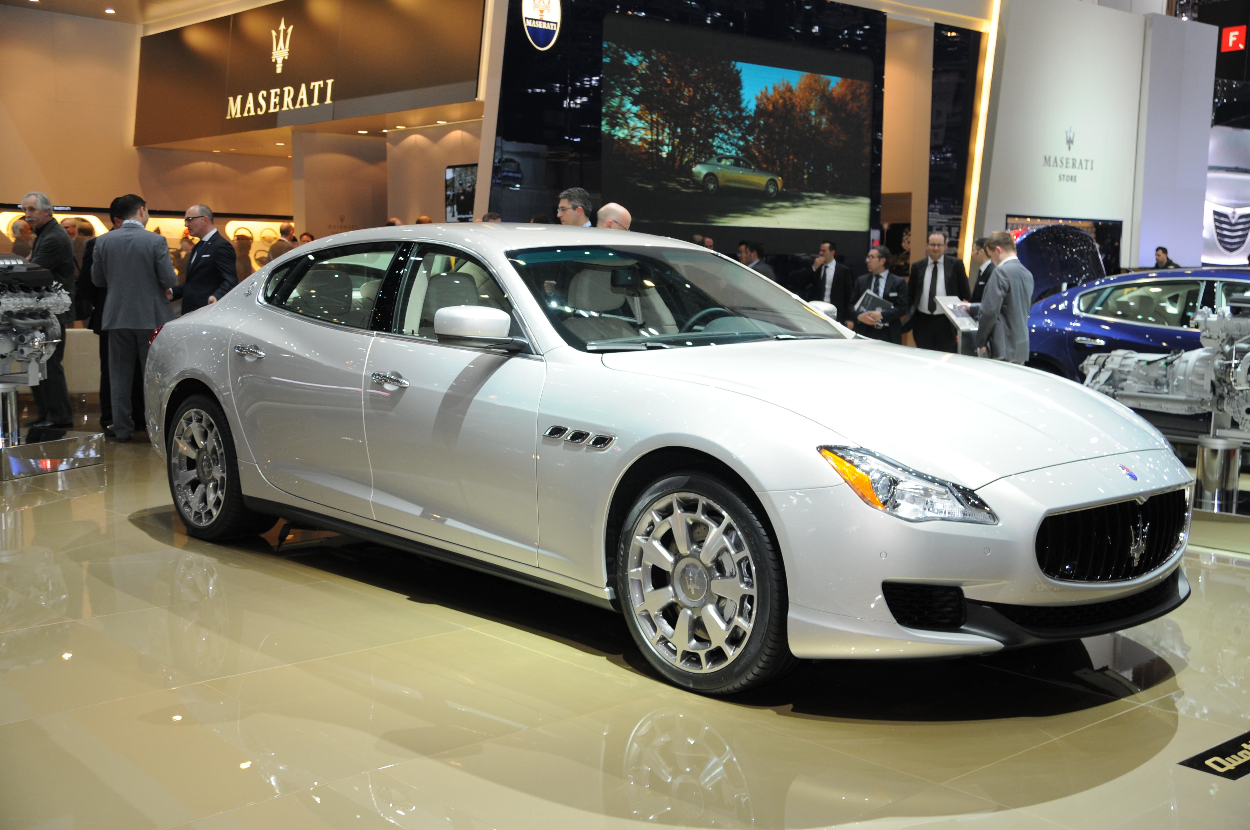 Maserati Quattroporte 2013 at Geneva Motor Show 2013 (photos taken on the first press day)